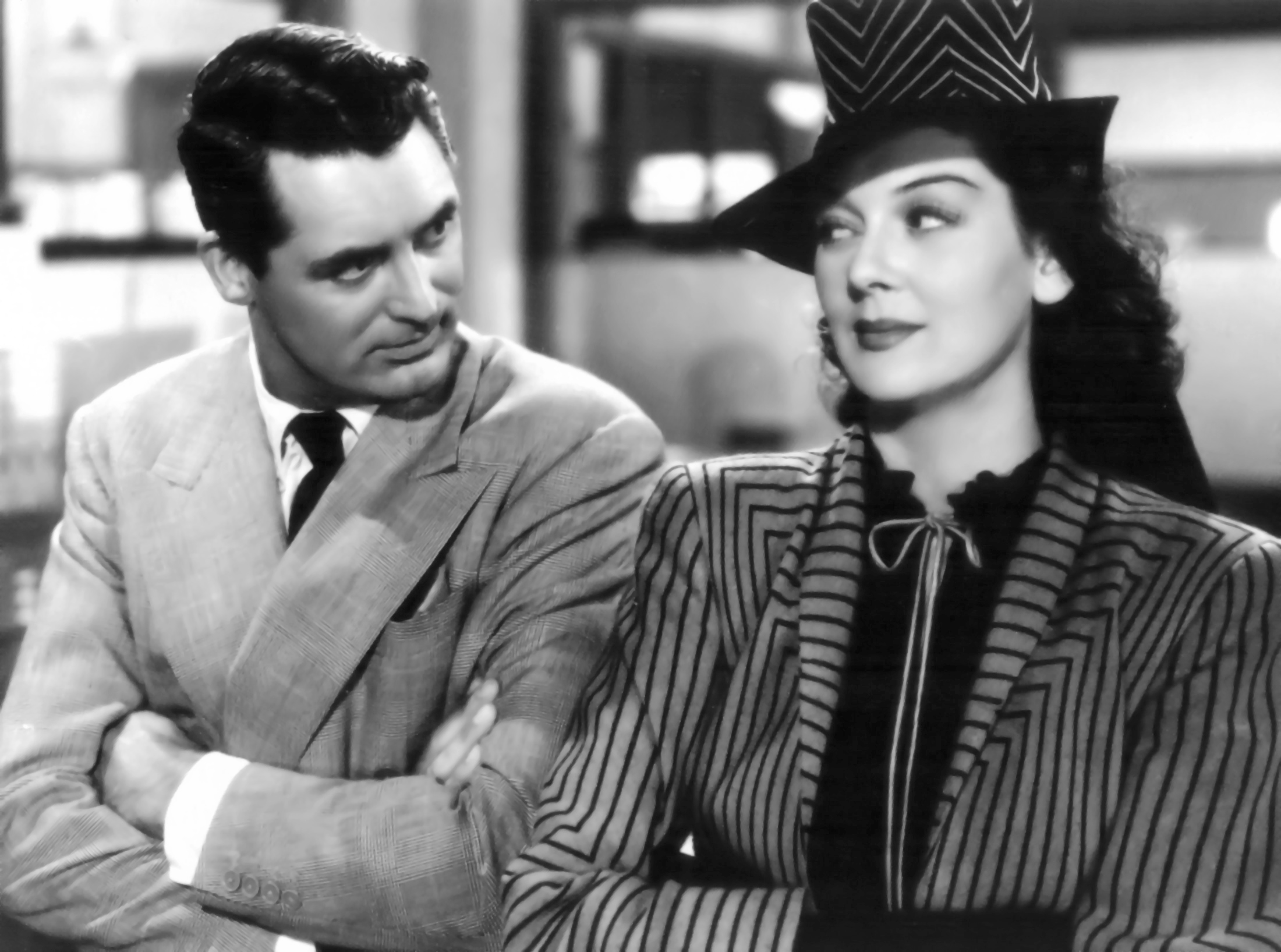 Promotional photo from the 1940 film His Girl Friday. Rosalind Russell is wearing a costume designed by costume designer Robert Kalloch. Due to a failure to renew the copyright registration, the film entered the public domain in 1968. See [1] and [2].